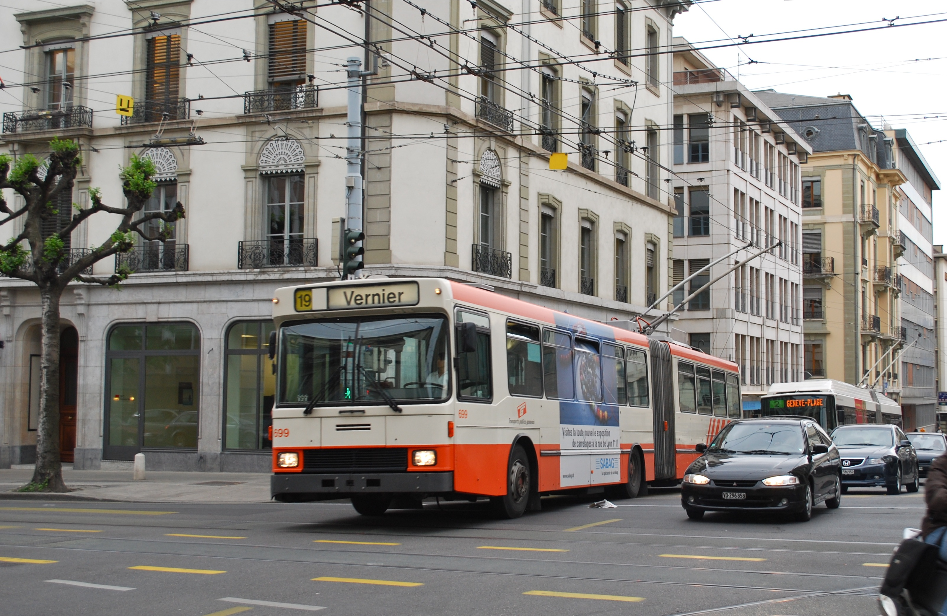 Geneva trolleybus 699 was built in 1988 by NAW/Hess. Following No. 699 in this photo is a newer-model trolleybus, a Hess "Swisstrolley-3" type, built in 2004 or 2005. Camera: Nikon D60 License on Flickr (2011-02-20): CC-BY-2.0 Flickr tags: geneva